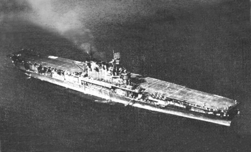 The U.S. Navy aircraft carrier USS Enterprise (CV-6) at Nouméa, New Caledonia, 10 November 1942, while the Big E was undergoing repairs after the Battle of Santa Cruz. The following day she recovered her air group and departed Nouméa to take part in the Naval Battle of Guadalcanal (12–15 November 1942), the final major Japanese attempt to reinforce their garrison on the contested island. Note the CXAM-radar.